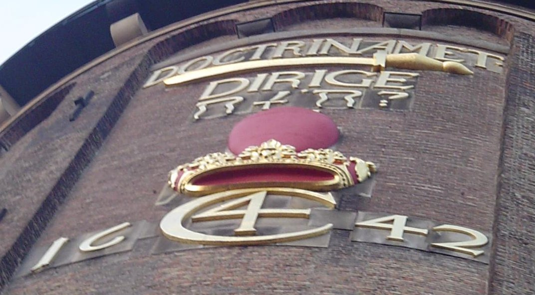 Rundetårn in Copenhagen. Picture by me on 25/3-2005.